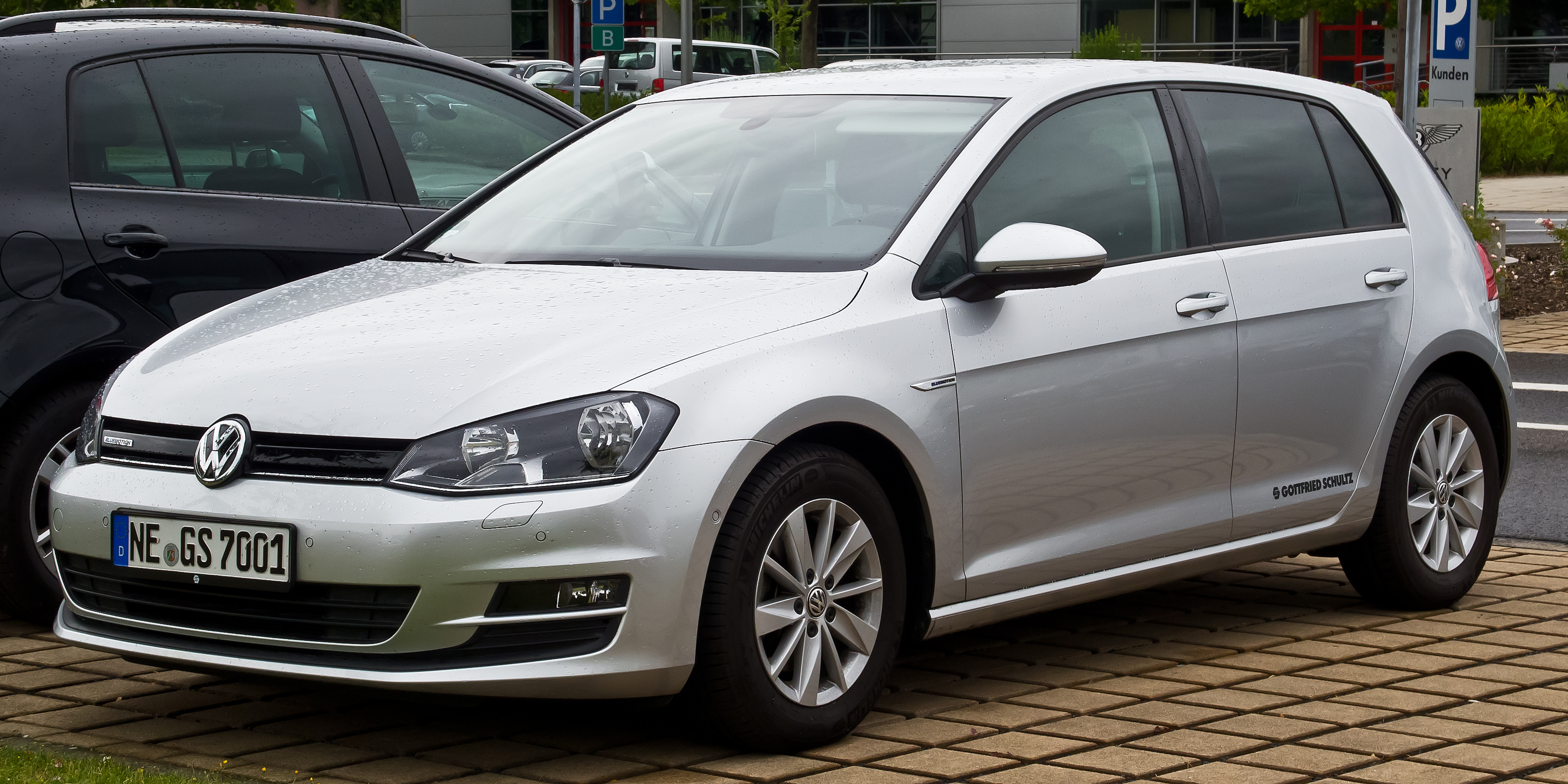 VW Golf 1.6 TDI BlueMotion Trendline (VII)